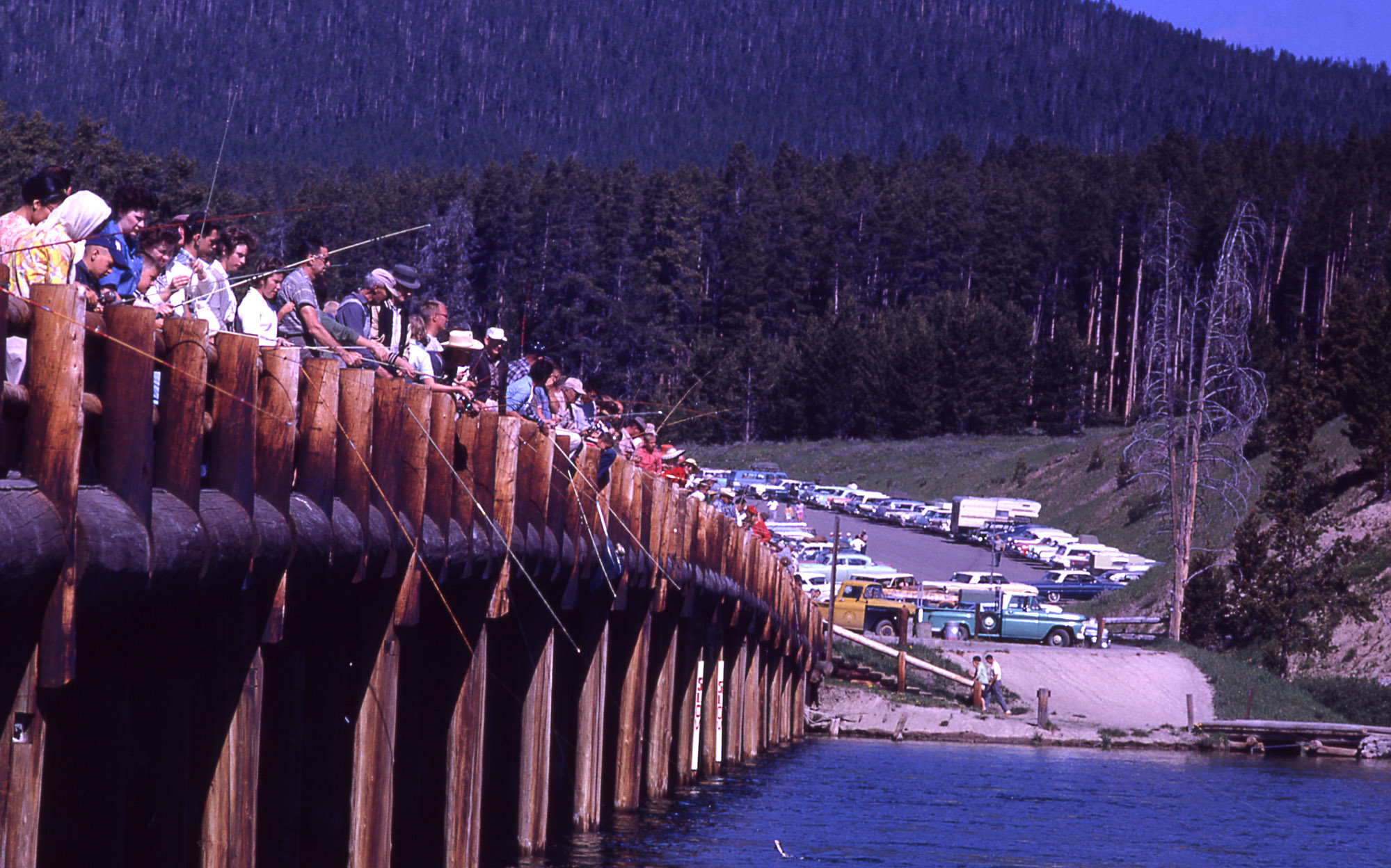 Fishing Bridge At Yellowstone Lake Outlet in 1962